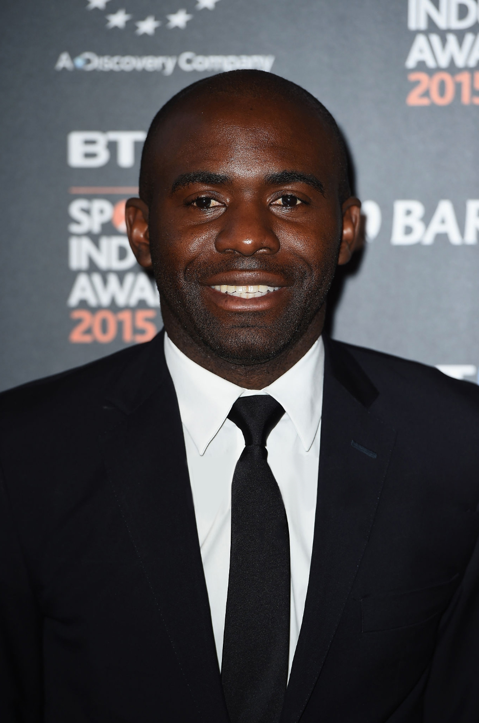 Award Event